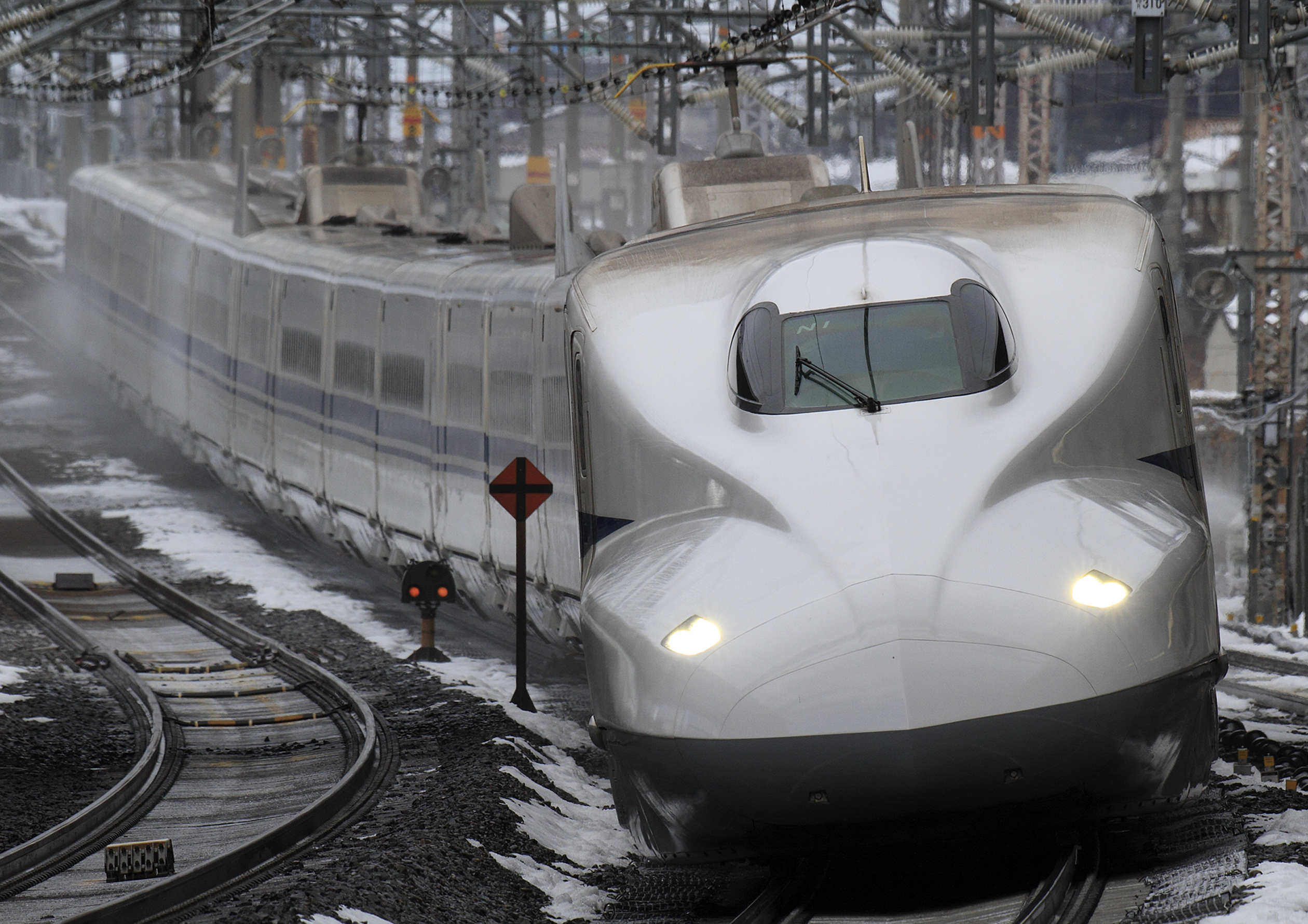 JR West N700 series shinkansen set N1 approaching Maibara Station on the Tokaido Shinkansen